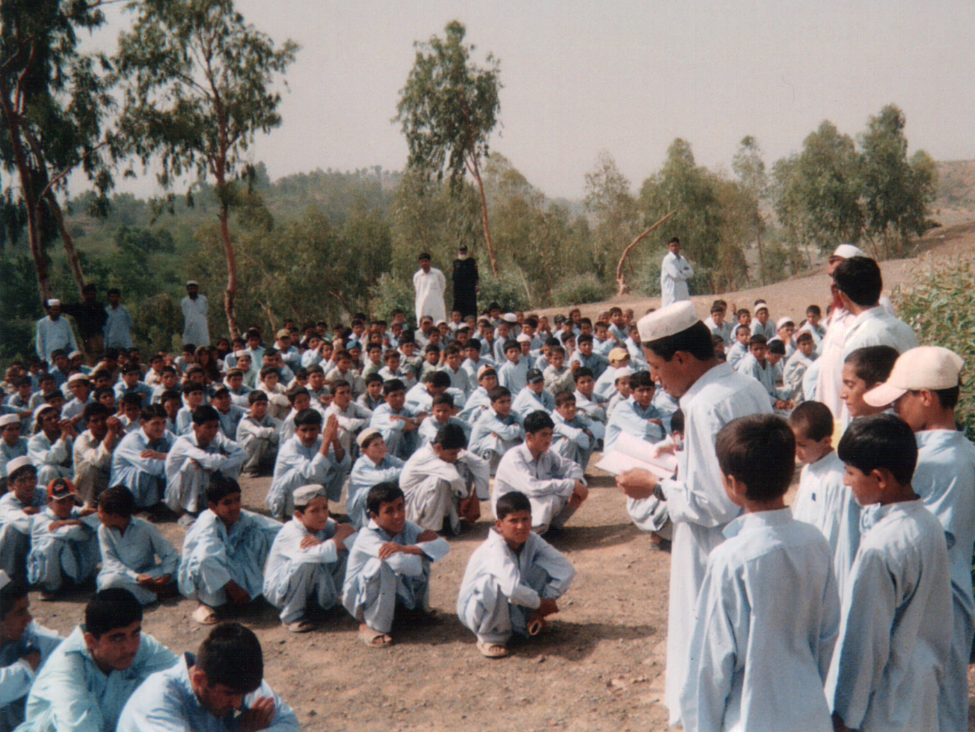 Ahmed Said Khadr's charitable school for orphans in Akora Khattak's Hope Village orphanage amongst the refugee camp.